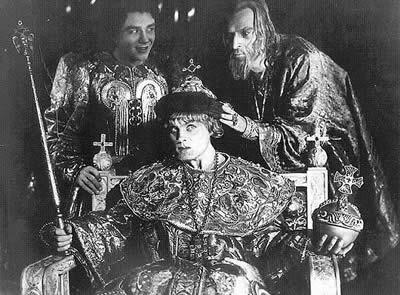 Vladimir of Staritsa in Ivan the Terrible (1944)